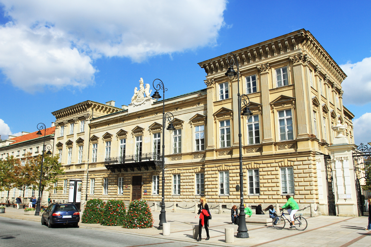 Uruskich-Czetwertynski Palace - Faculty of Geography and Regional Studies, University of Warsaw